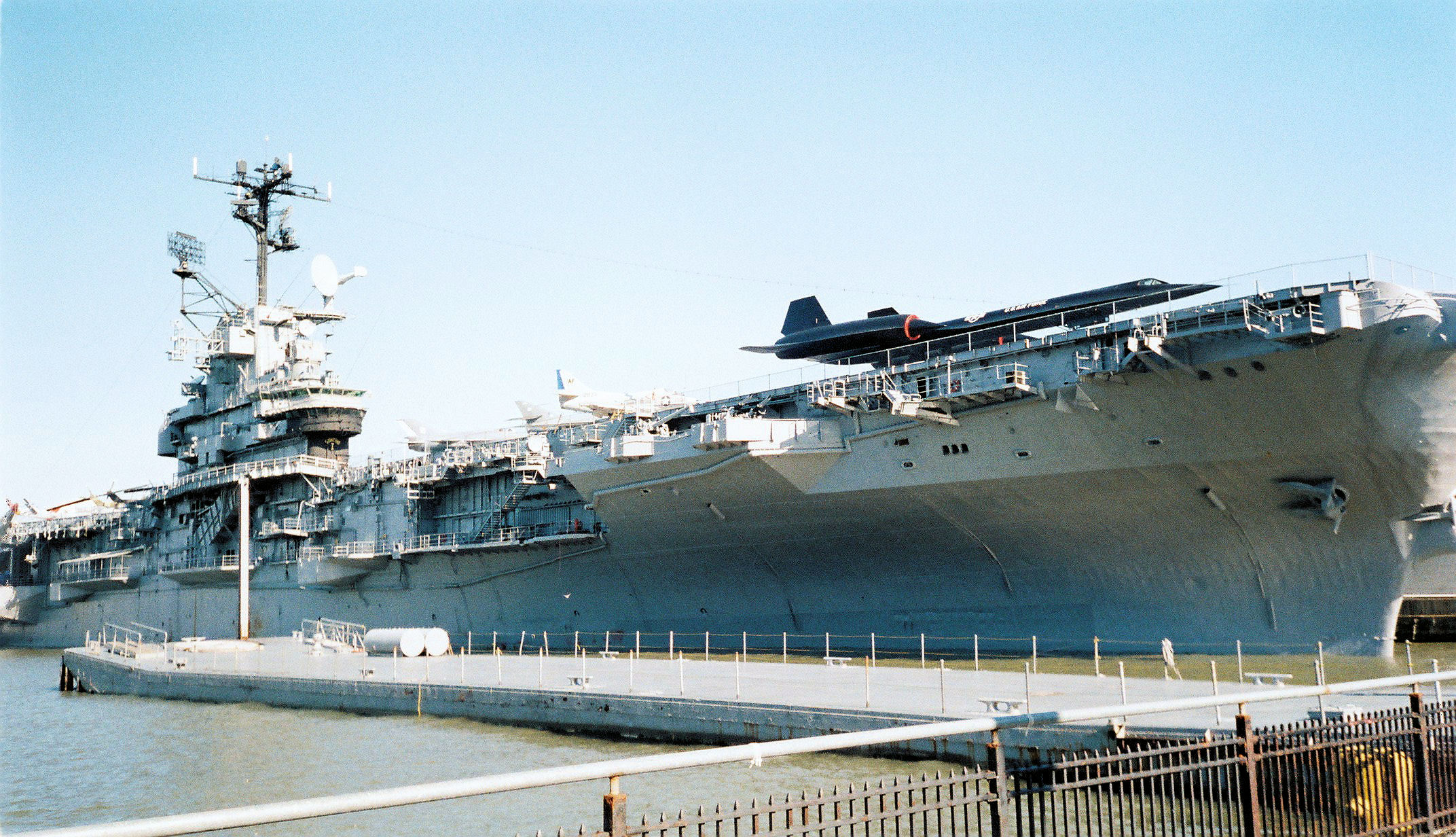 The USS carrier USS Intrepid (CV-11) at Intrepid Sea-Air-Space Museum, Pier 86, 12th Ave. & 46th Street, New York City. This Essex Class aircraft carrier was one of America's most effective military vessels. Along with her 23 sister ships, the USS Intrepid formed the backbone of the United States Navy. Throughout the Pacific Campaign of World War II, the USS Intrepid suffered seven bomb attacks, five kamikaze strikes and one torpedo hit; yet the ship continually returned to action after repairs, earning her the reputation among the enemy as the "The Ghost Ship." After World War II, the Intrepid underwent a modernization, enabling her new, angled flight deck to accommodate jet aircraft. During the 1960's, the Intrepid served as a primary recovery vessel for NASA, picking up both the Mercury and Gemini capsules. After three tours of duty in Vietnam and tracking Soviet submarines during the Cold War as an ASW (antisubmarine warfare) ship, the Intrepid was officially retired in 1974. On the flight deck America?s modern military cutting edge is represented by a Navy F-14 Tomcat, an Air Force F-16 Fighting Falcon, a Marine Corps AV-8A Harrier and an A-12 Blackbird spy plane (shown here)